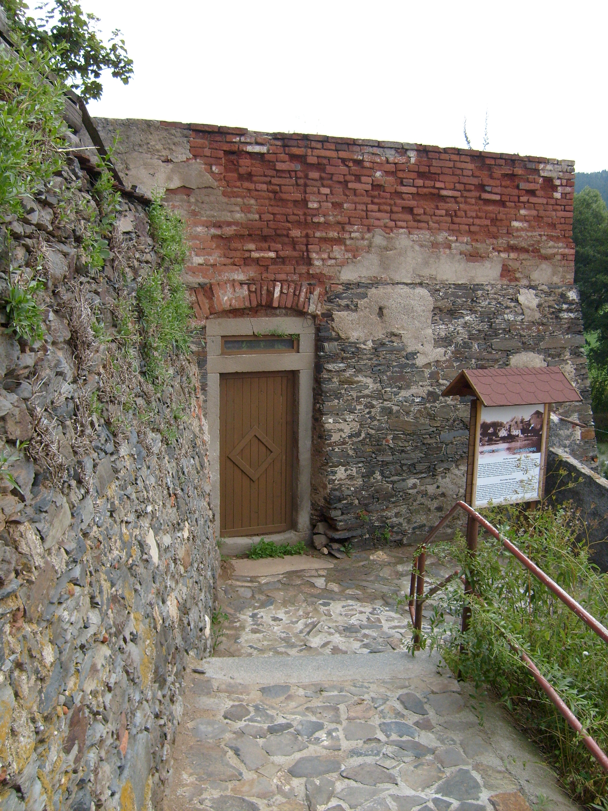 Synagogue, Chyše, Karlovy Vary Region, Czech Republic